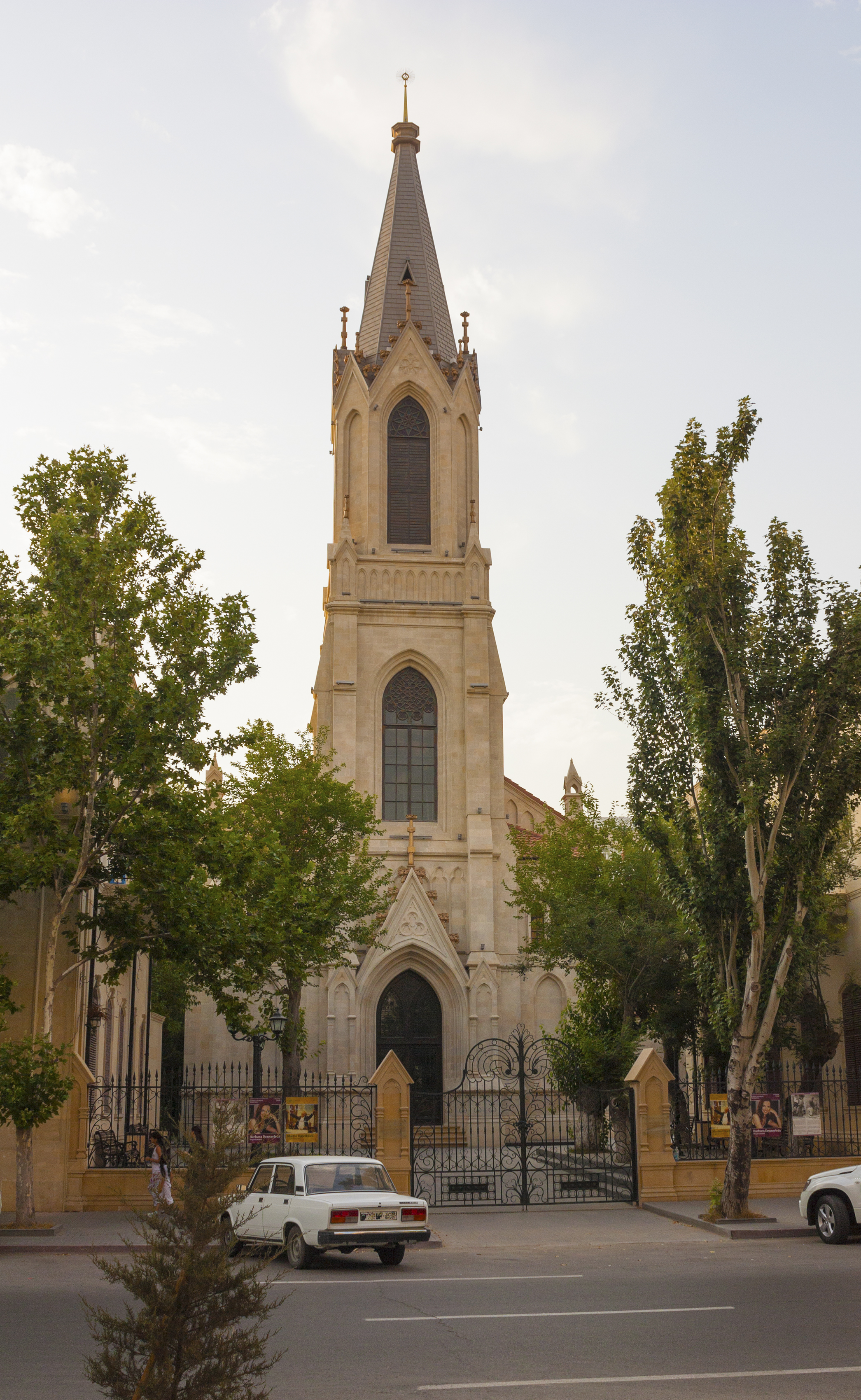 Azerbaijan, Baku, the old Lutheran Church. Currently, it is placed the organ hall. photos of 2011